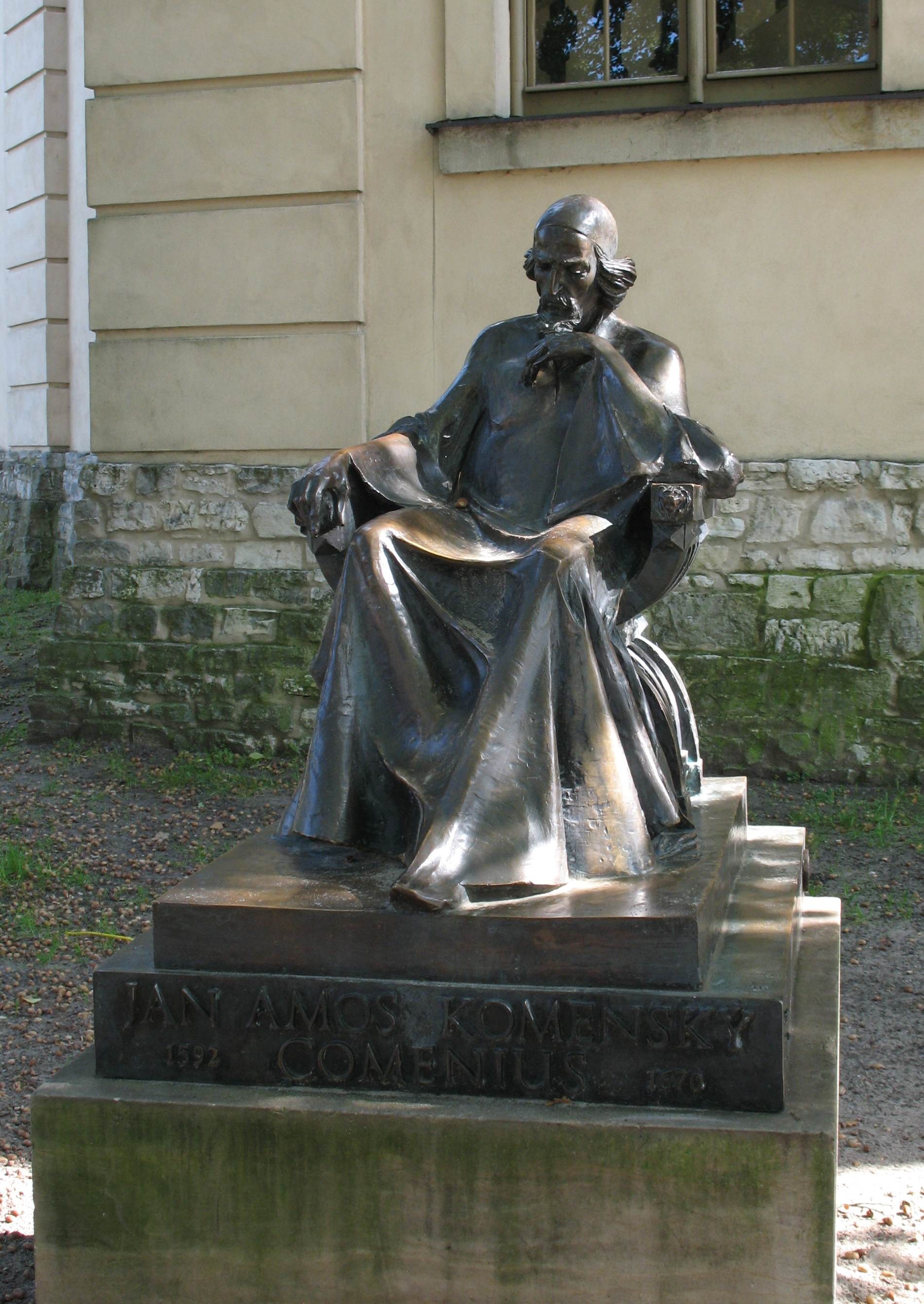 Comenius memorial in Potsdam-Babelsberg in Brandenburg, Germany